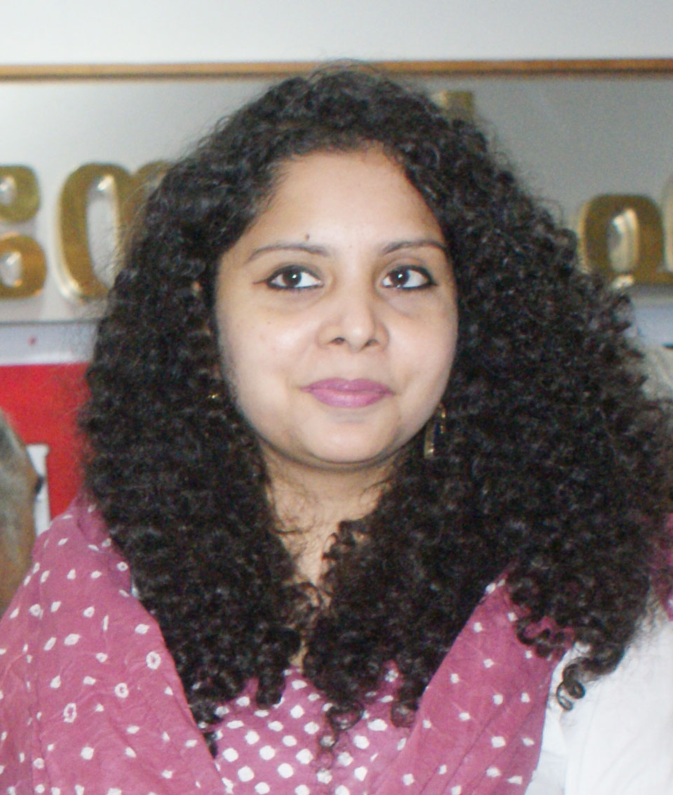 റാണാ അയ്യൂബ്